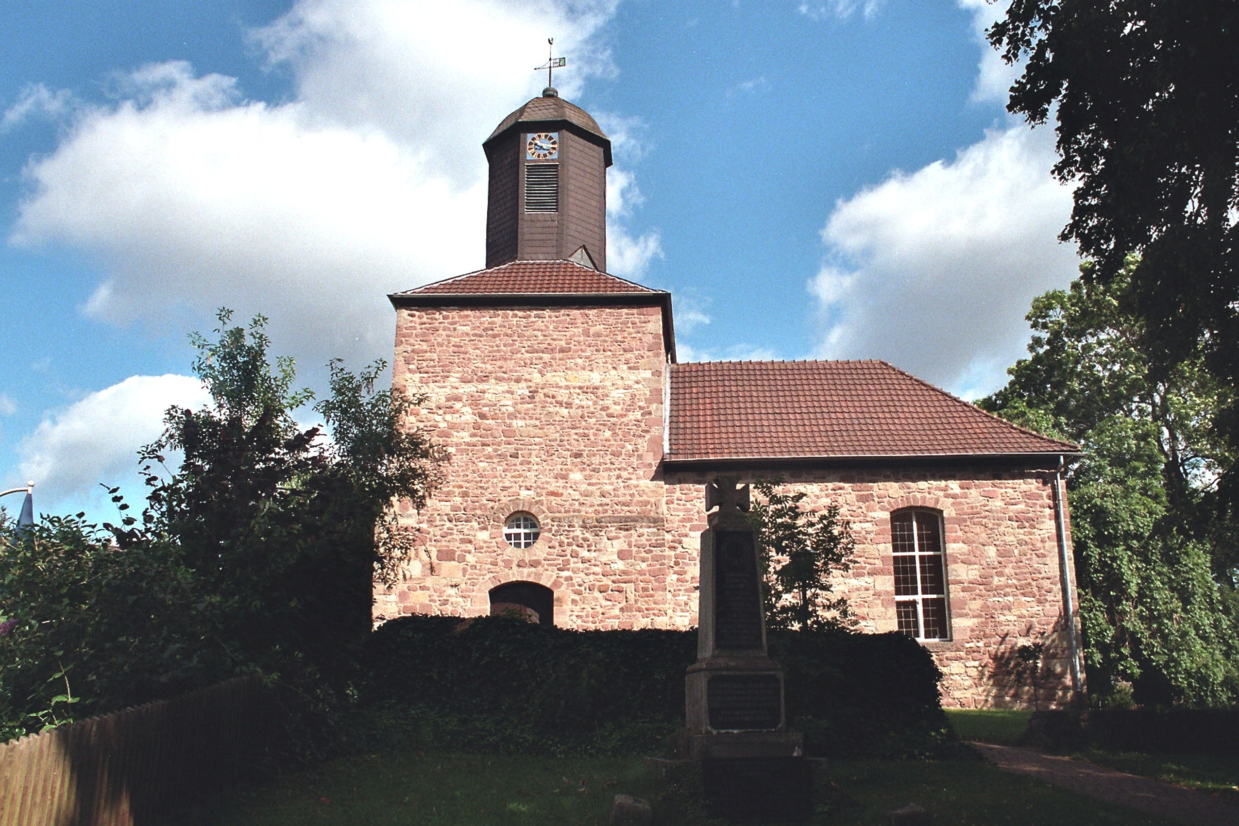 Hermannrode (Neu-Eichenberg), the village church